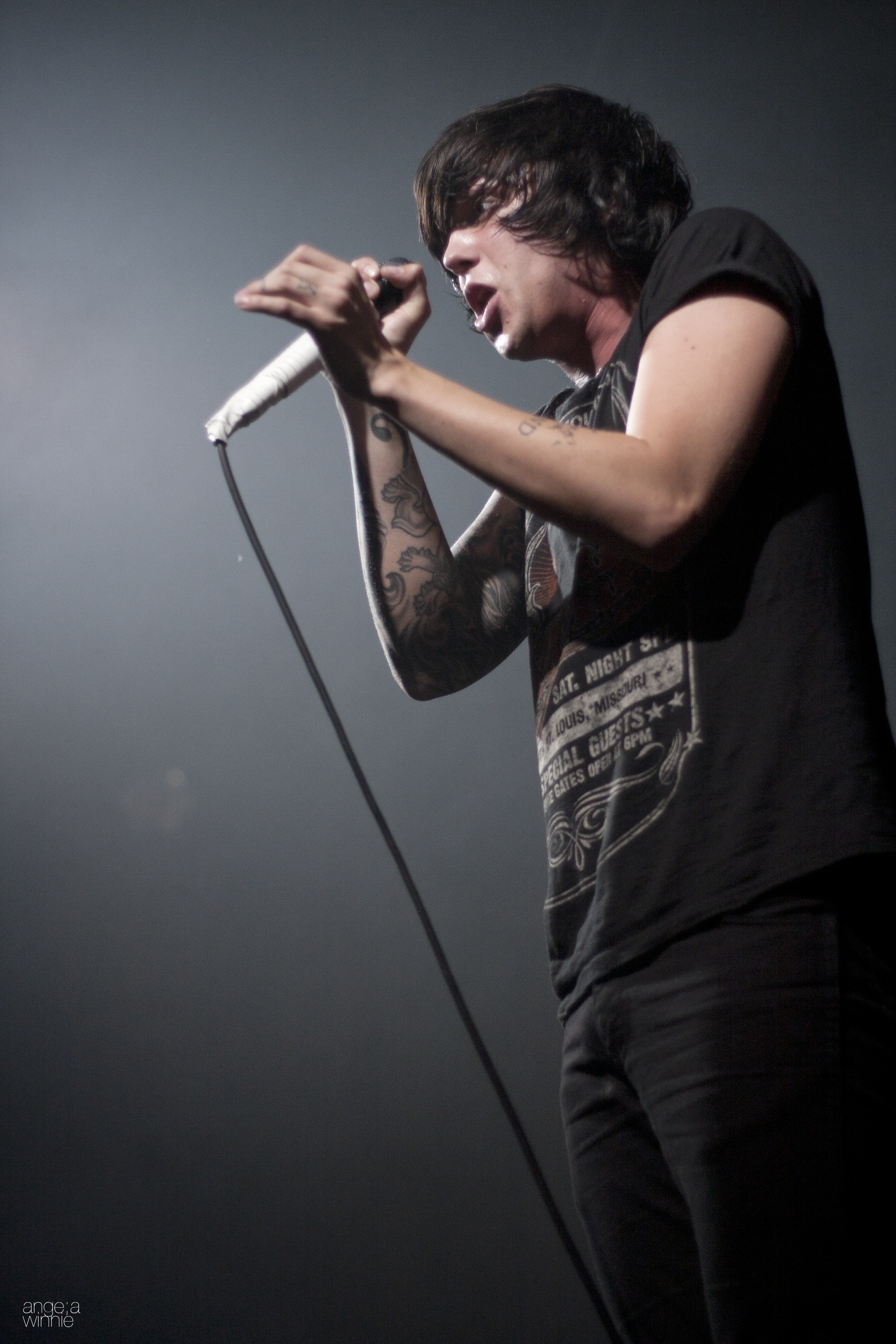 Sleeping With Sirens November 2012